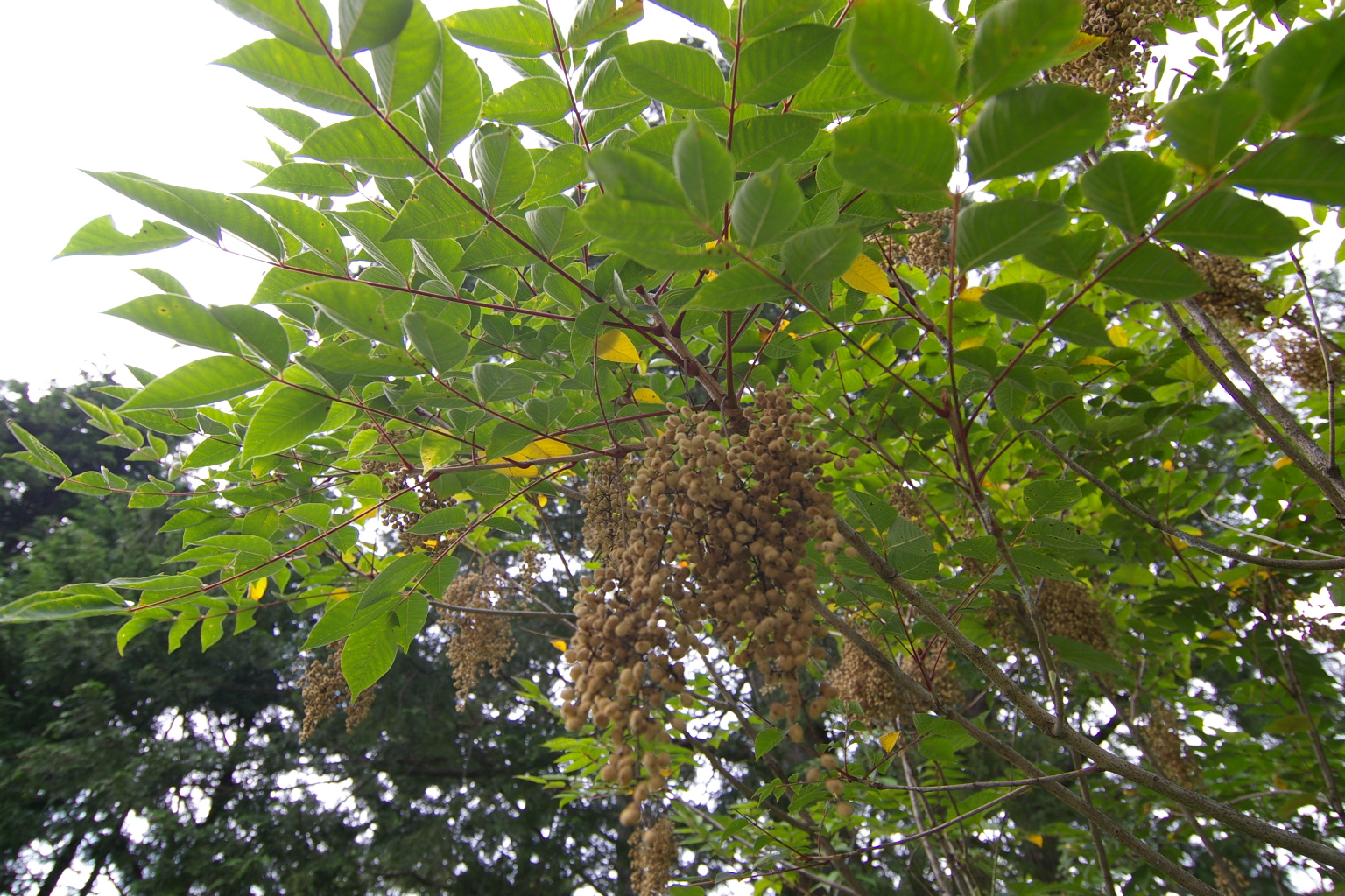 Toxicodendron vernicifluum (Agi, Nakatsugawa City, Gifu Pref., Japan)